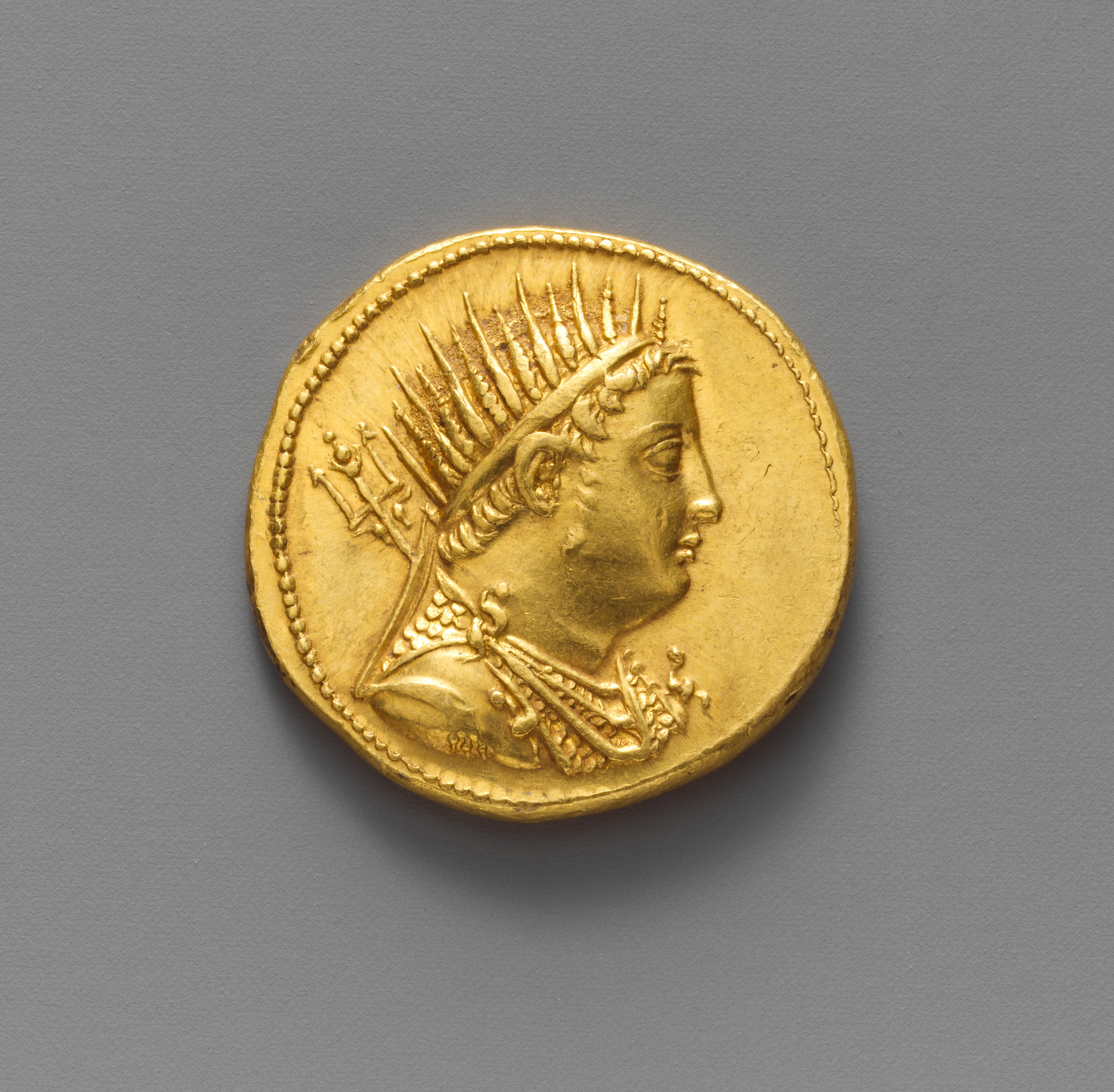 Greek, Ptolemaic; Oktadrachm; Coins